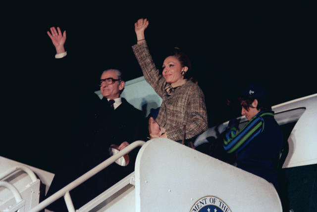 Mohammed Reza Pahlavi, Emperor of Iran, and his wife, Empress Farah, wave goodbye prior to boarding an aircraft after a visit to the United States. Location: ANDREWS AIR FORCE BASE, MARYLAND (MD) UNITED STATES OF AMERICA (USA)